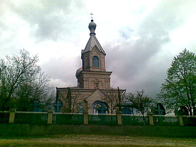 Biserica Ortodoxă din Balatina, Republica Moldova